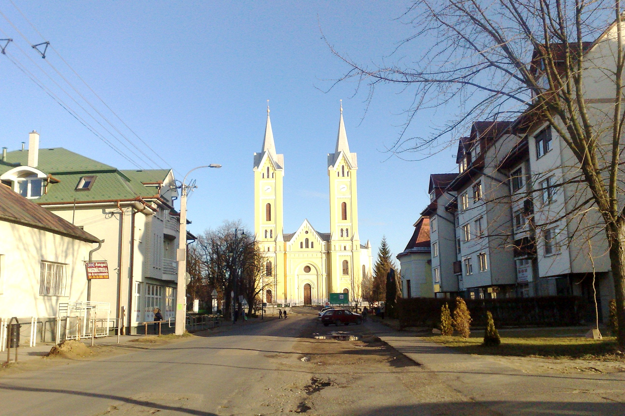 Hajdúhadház